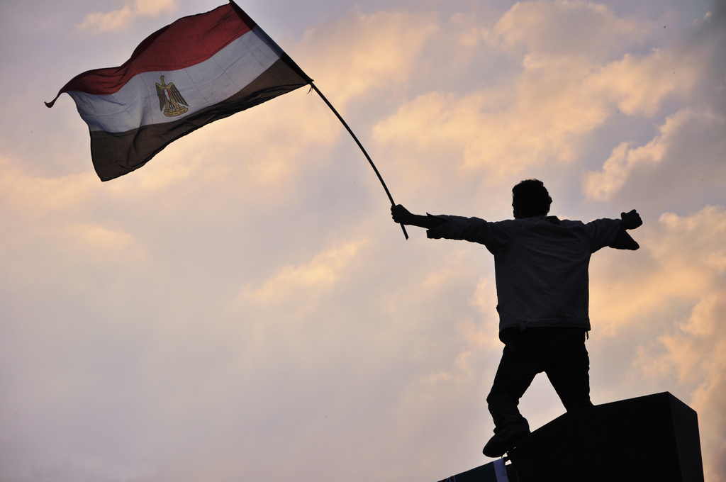 One of the protestors waving the Egyptian Flag during the protests in Tahrir Square, Cairo.The Egyptian revolution started on January 25, 2011. Protestors demanded the removal of the regime and for Hosni Mubarak to step down. More than 400 were killed and 5000 injured through the entire revolution.Mubarak resigned on February 11, 2011 and the Military took control. The picture wad the winner of the Public Category of the 2011 IFES Photography Contest: The picture has been featured in many articles